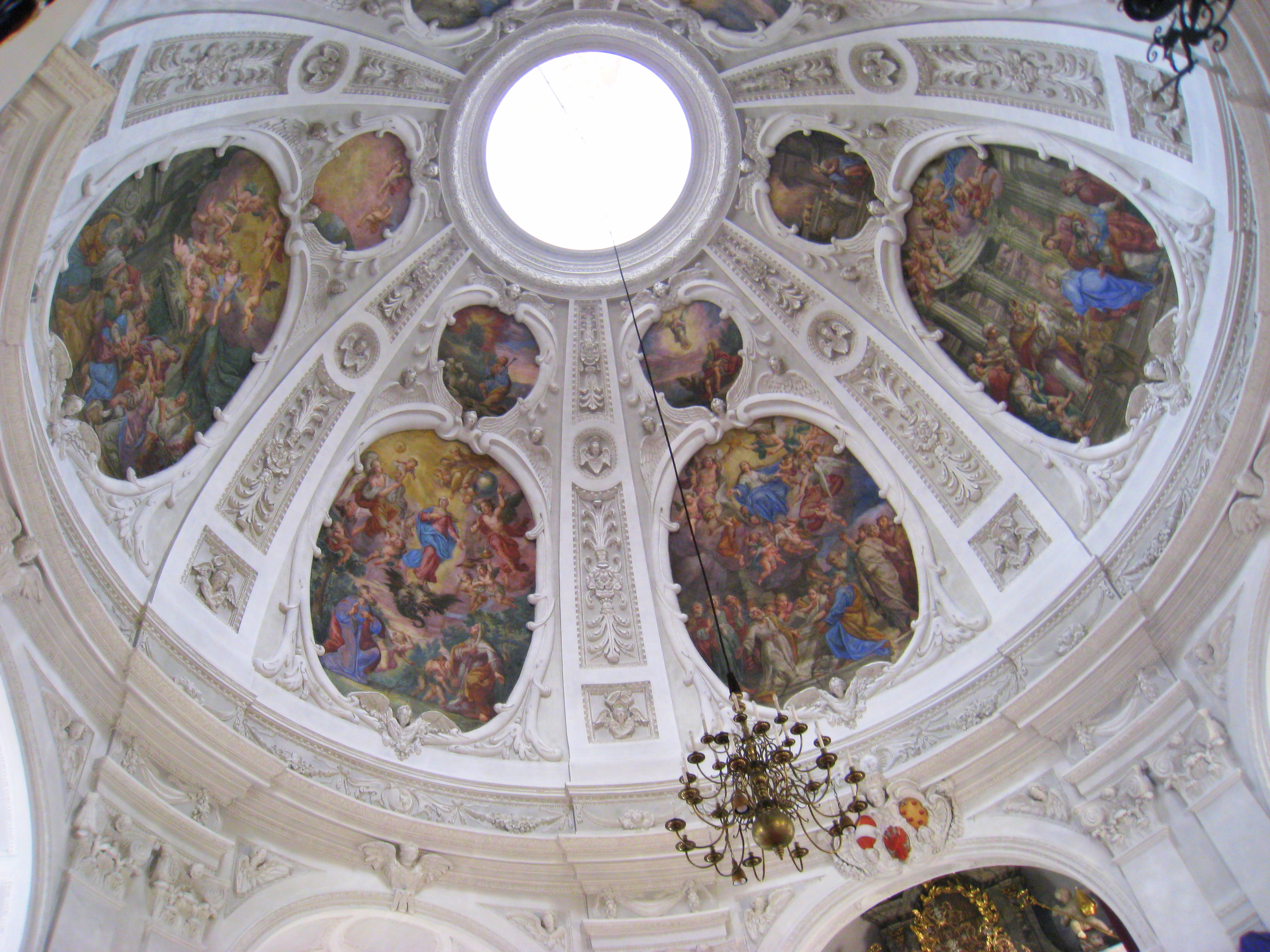 Innsbruck, Austria - Mariahilf Kapelle.